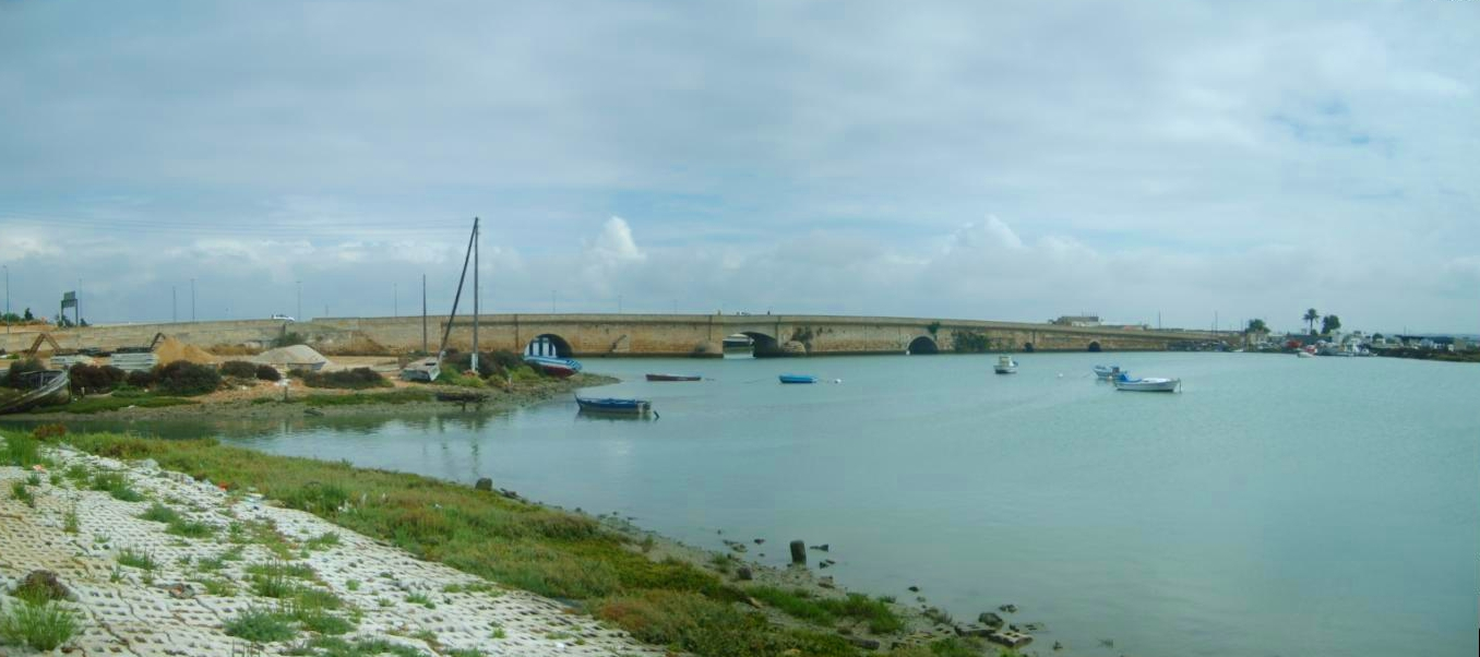 Zuazo or Suazo Bridge's panoramica, in the town limit between San Fernando and Puerto Real, they both in Cadiz, Andalusia, Spain.